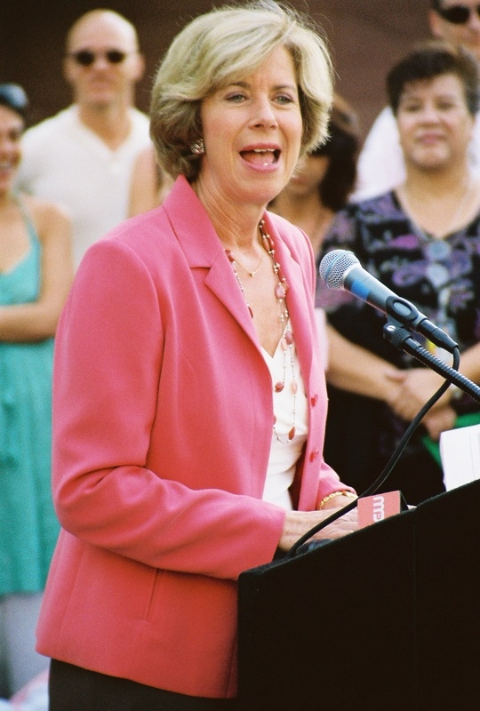 Los Angeles City Councilmember Janice Hahn came down to the street to address the concerns of patients and caregivers at the WAMP Rally.